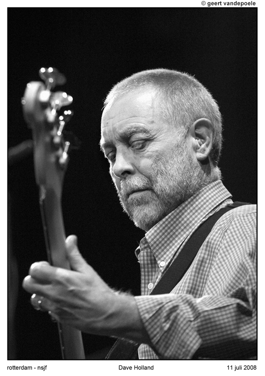 Jazz double-bassist Dave Holland at North Sea Jazz Festival, 2008